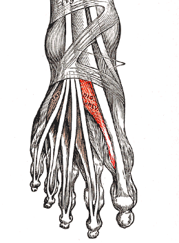 Gray437-Musculus_extensor_hallucis_brevis